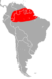 Lesser Ghost Bat (Diclidurus scutatus) range